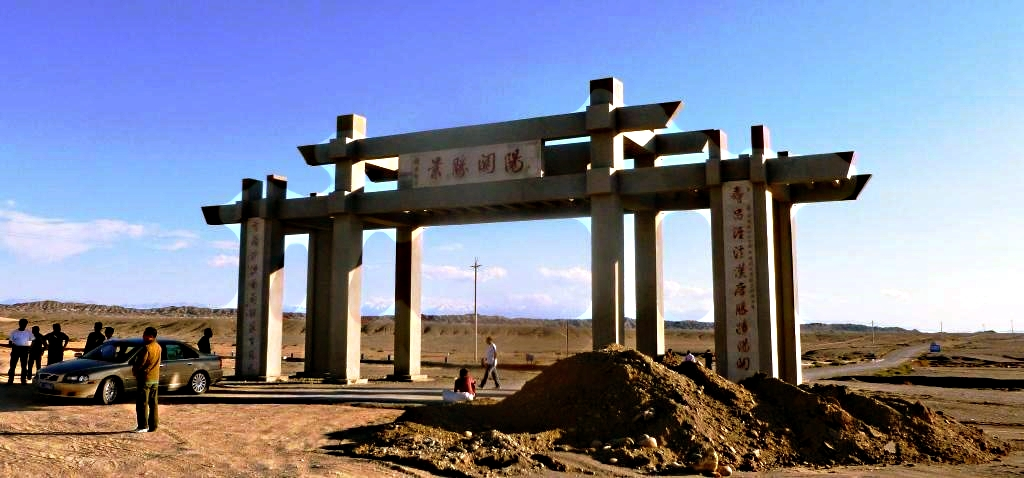 I took this photo on the way from Khotan to Dunhuang in 2011.